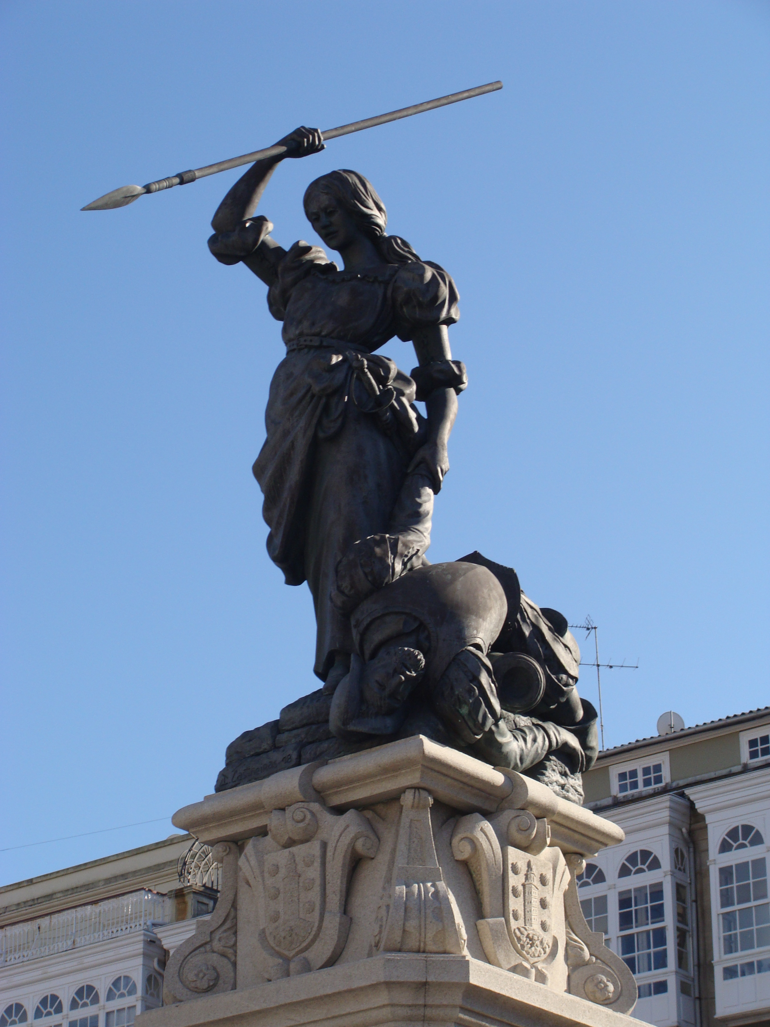 Statue of María Pita in Corunna, Galicia, Spain